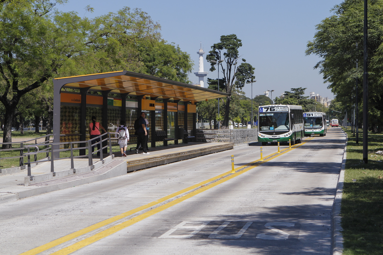 The Estadio Parque Roca station along the Metrobus Sur city bus route. Av. Coronel Roca, Buenos Aires.